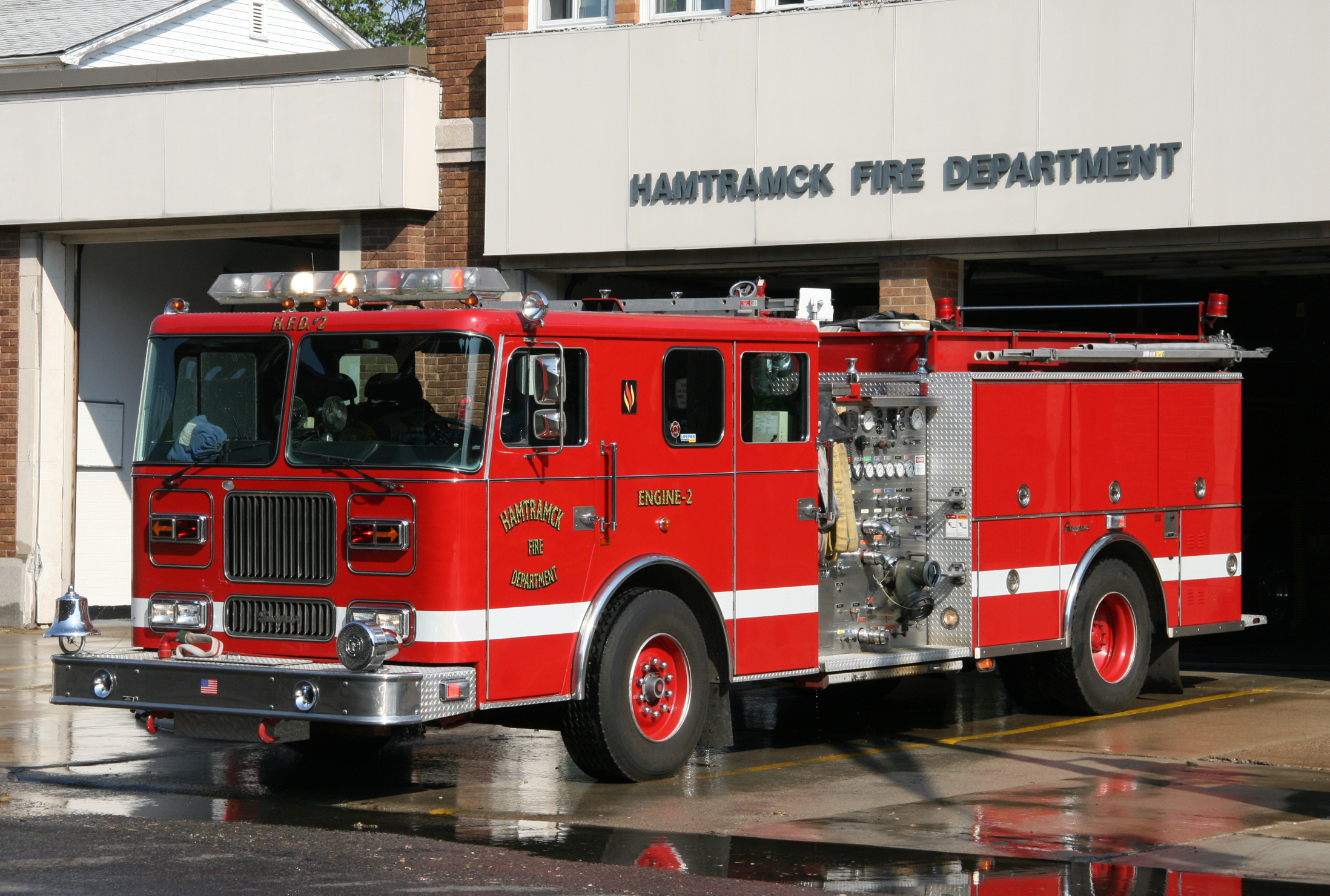 The Hamtramck Fire Department and a Seagrave fire engine